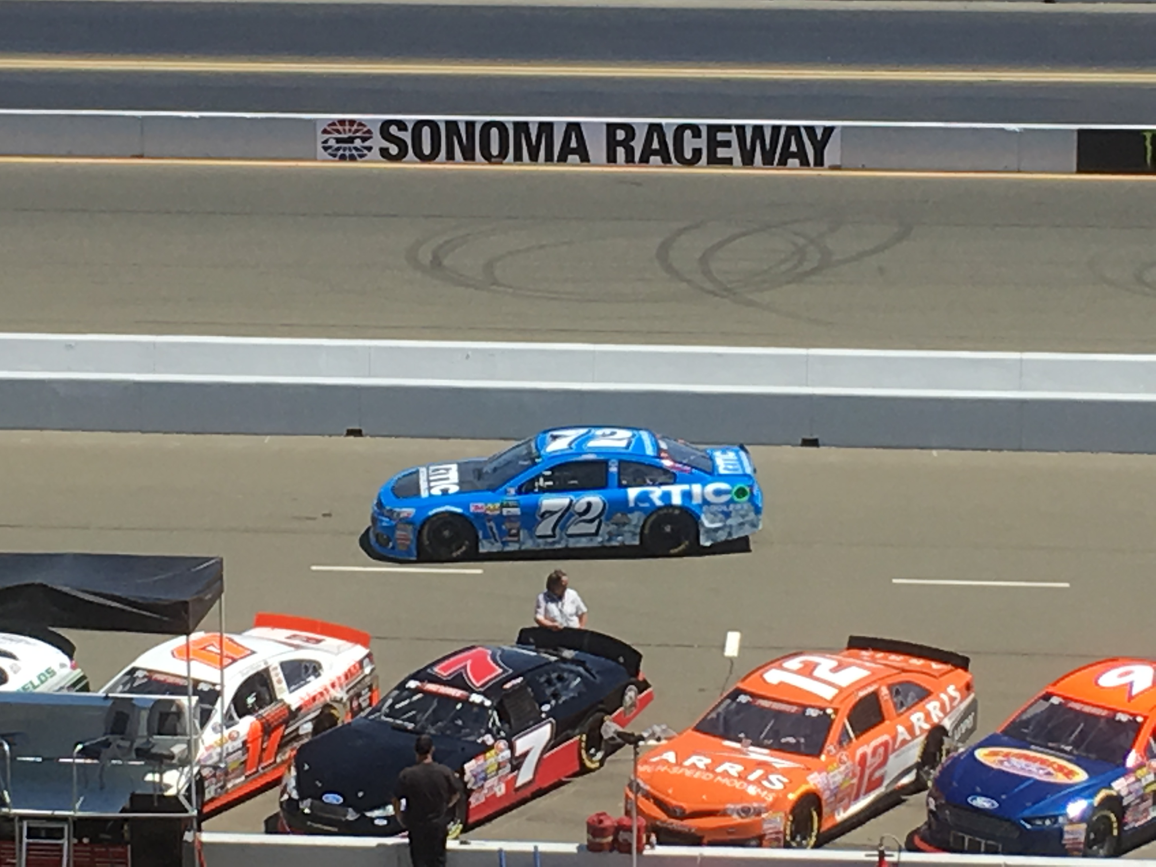 Cole Whitt during qualifying for the 2017 Toyota/Save Mart 350.